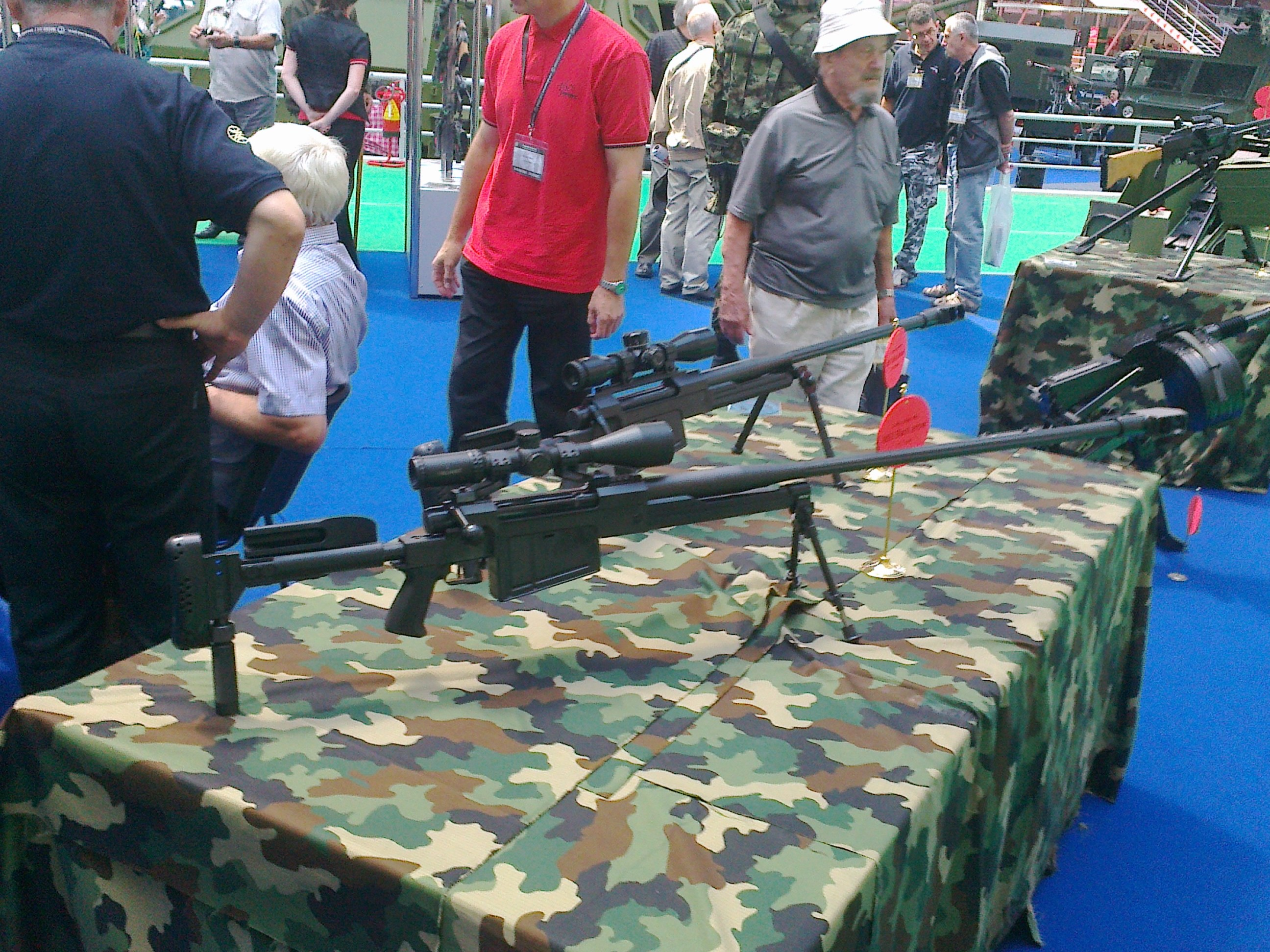 Zastava M12 Black Spear on display during Partner 2013 arms fair, Belgrade.